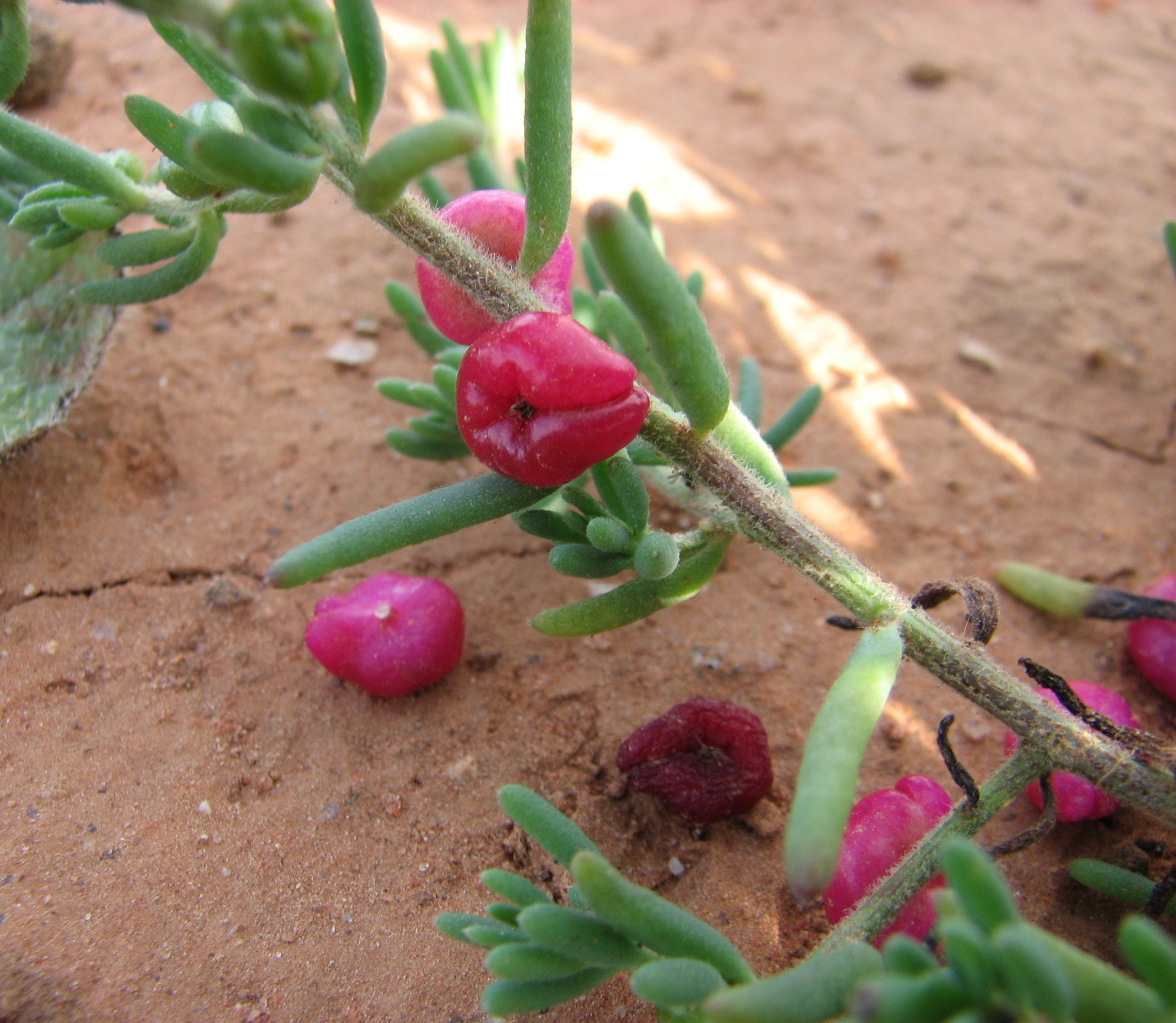 Enchylaena tomentosa on a roadside near Mount Hope, Victoria, Australia